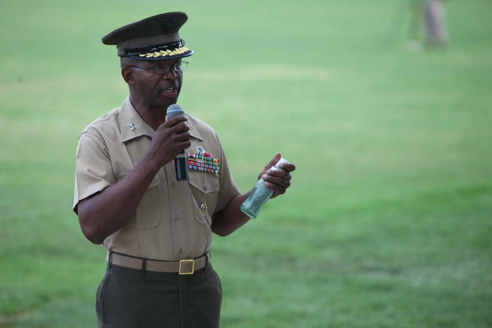 Major Gen. Ronald L. Bailey, the 1st Marine Division commanding general, shows audiences a bottle of sand from Guadalcanal during a battle color rededication ceremony on the division parade field here, Aug. 30. The Marines demonstrated tenacity and valor at the battle of Guadalcanal, and the 1st Marine Division logo features the word “Guadalcanal” in honor of the battle. Bailey fastened 25 streamers to the battle color signifying various campaigns, expeditions, battles, and decorations presented to the division since its founding, from the occupation of Haiti in 1915 to Operation Enduring Freedom in Afghanistan. The ceremony was directed by the commanding general of the 1st Marine Division as a part of the Commandant’s guidance to refocus Marines on their core values and identity.